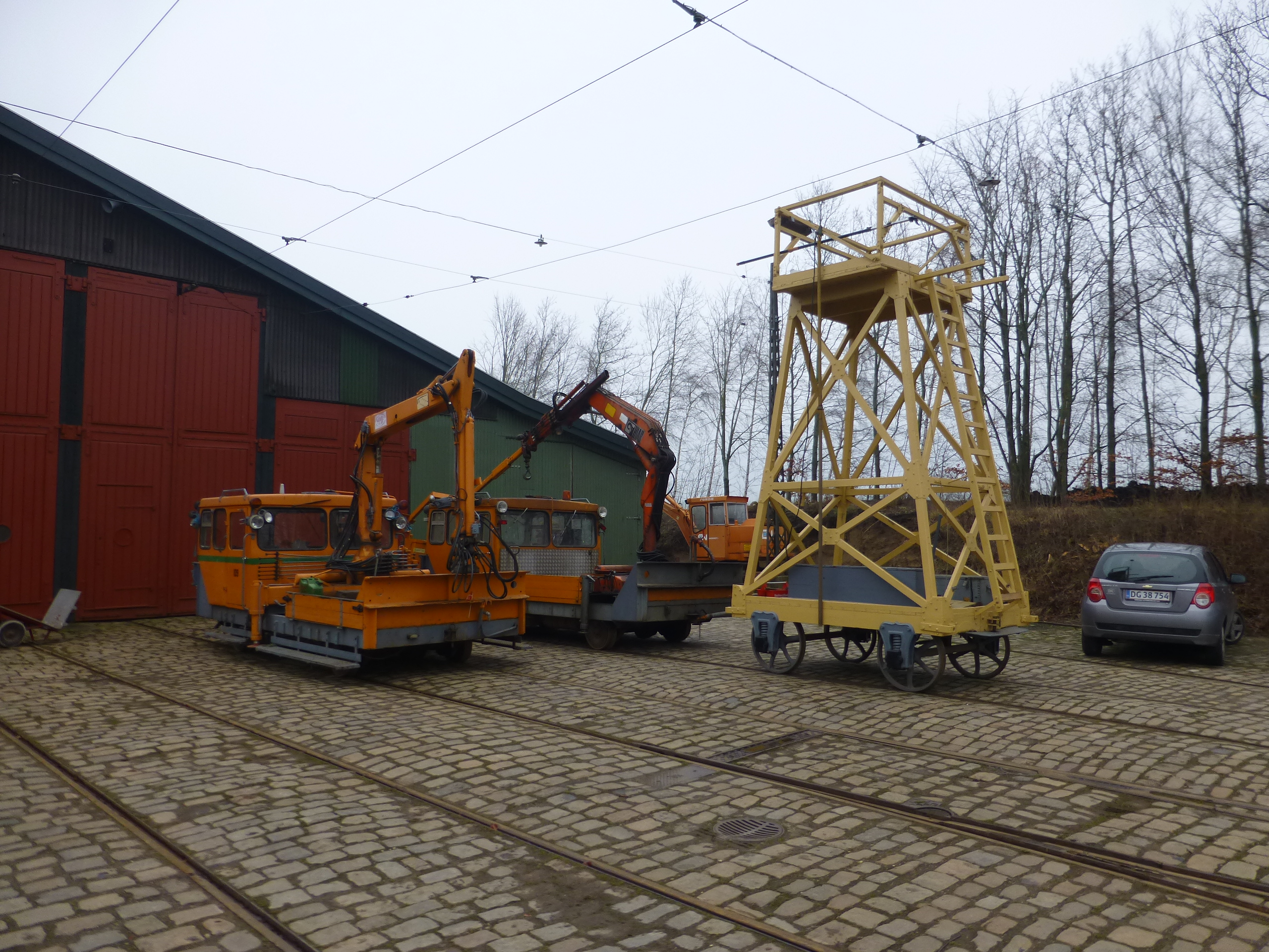 Old motor trolleys with cranes BS 109 and DSB 136 together with tower car KS Tv 2 on Sporvejsmuseet Skjoldenæsholm in Denmark.